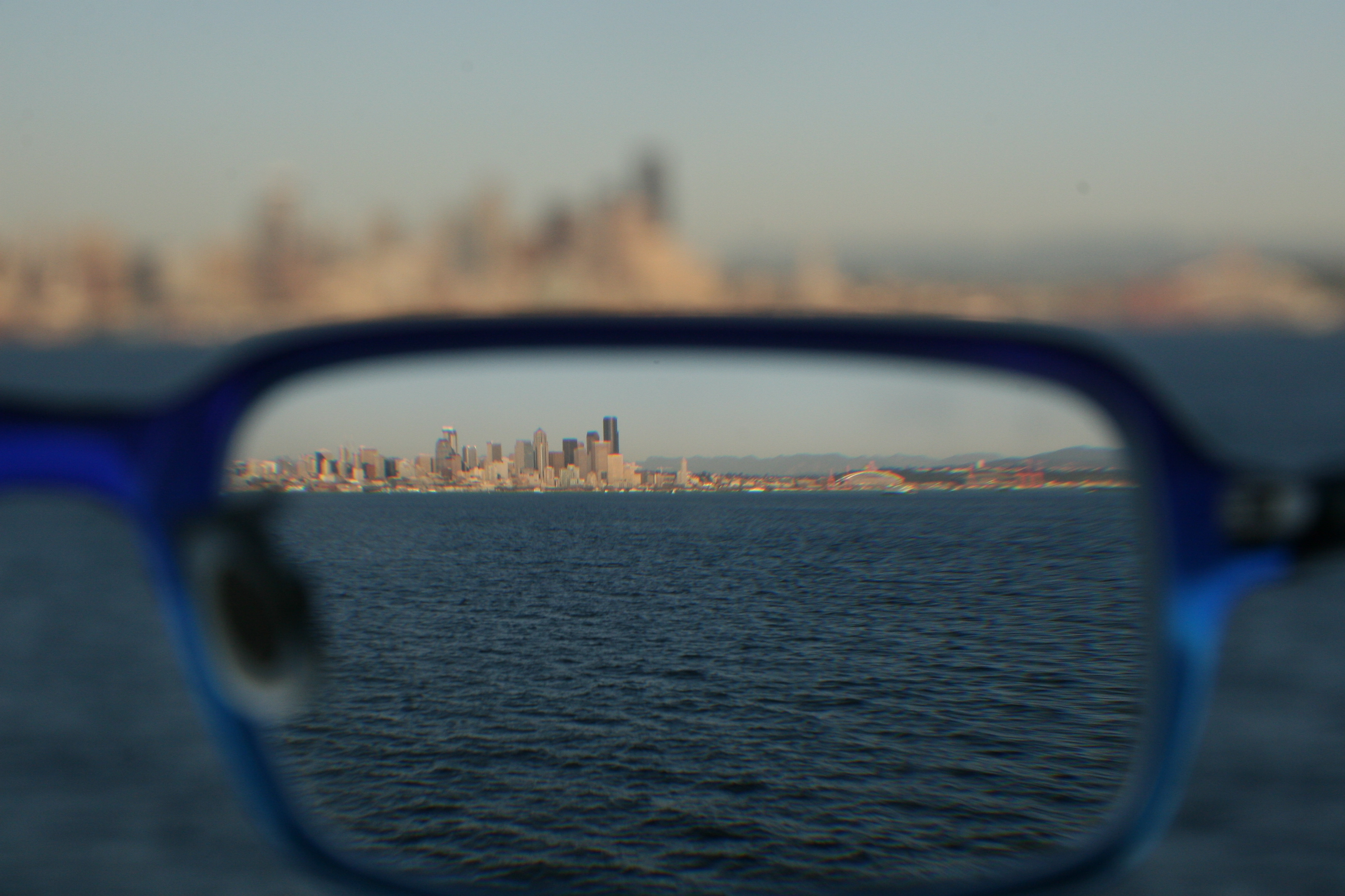 The image of Seattle being refracted through myopic glasses